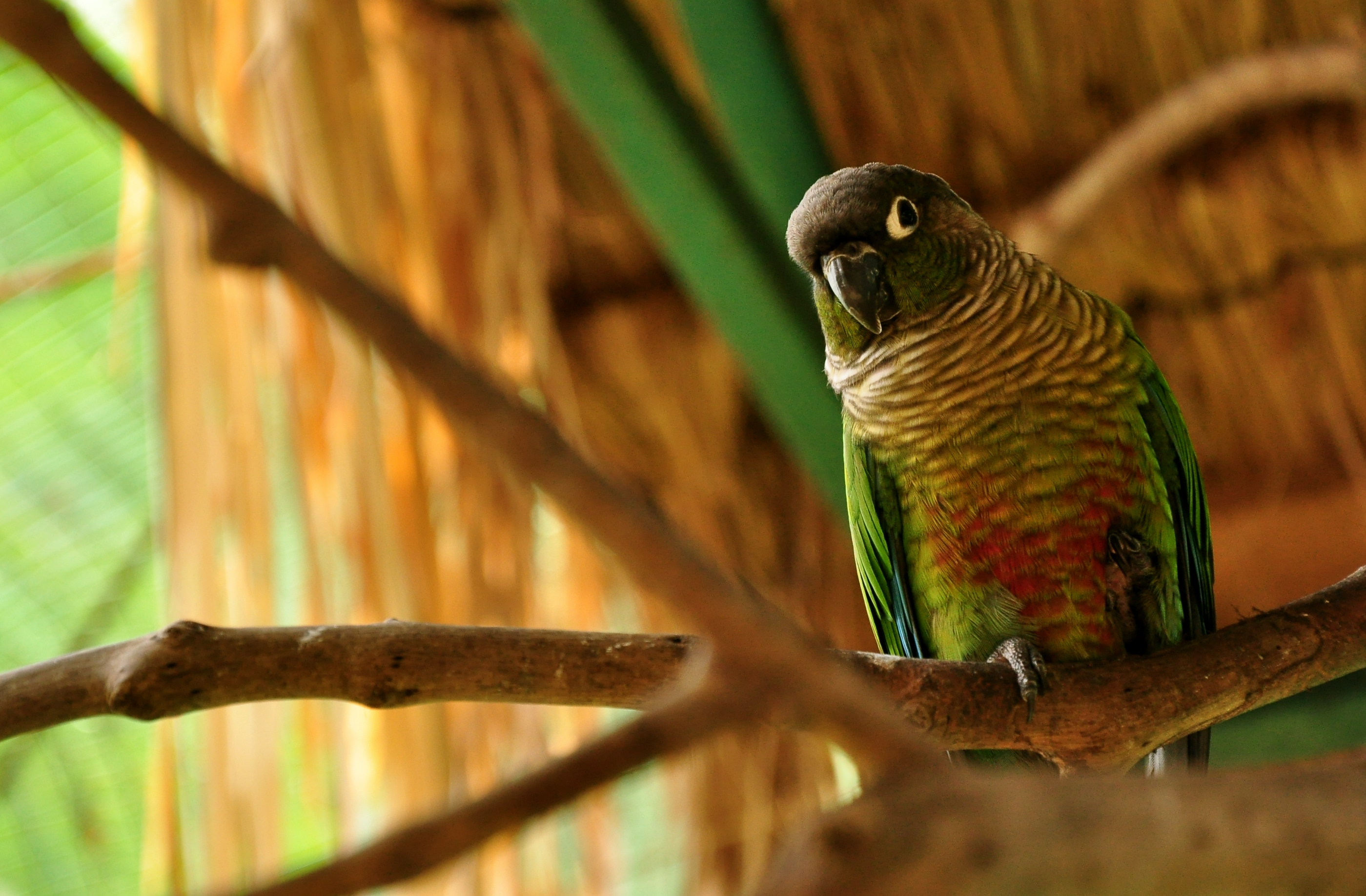 Green-cheeked Conure perching in an aviary.